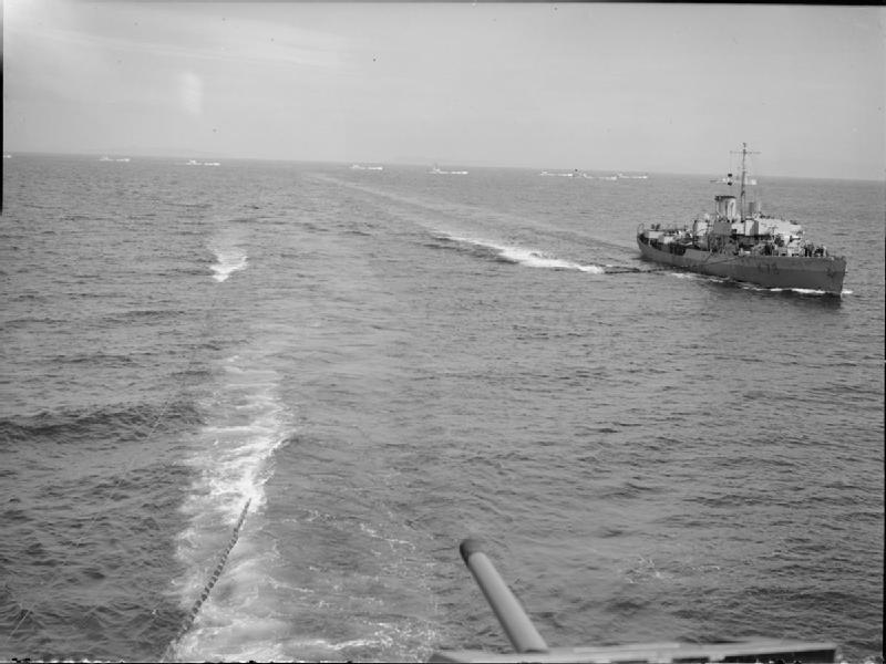 The Royal Navy during the Second World War HMS RHODODENDRON in the correct position during refuelling trials at sea on board the SS SAMINVER, a Liberty ship.